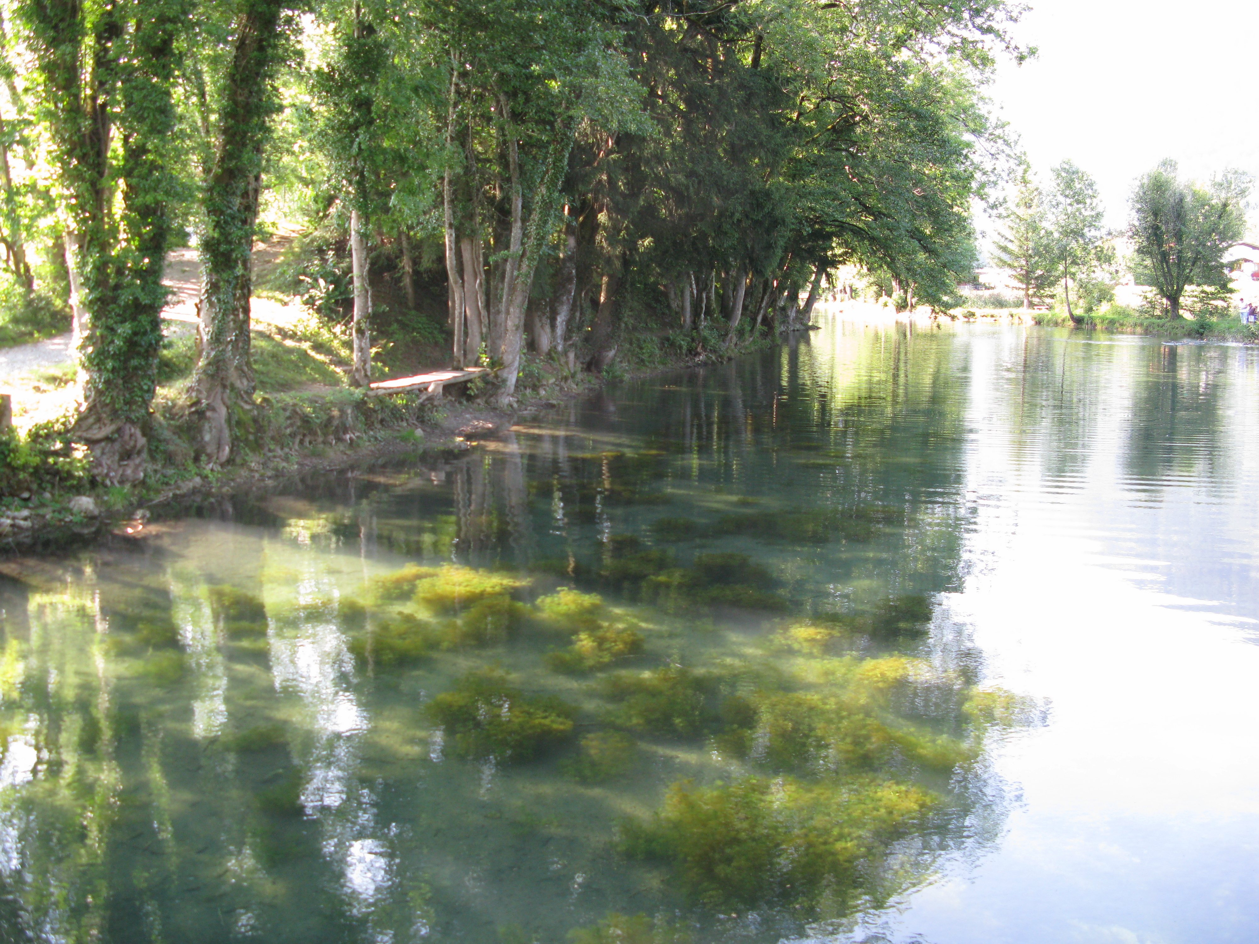 The Montjola-Lake close to Thüringen (Vorarlberg, Austria).